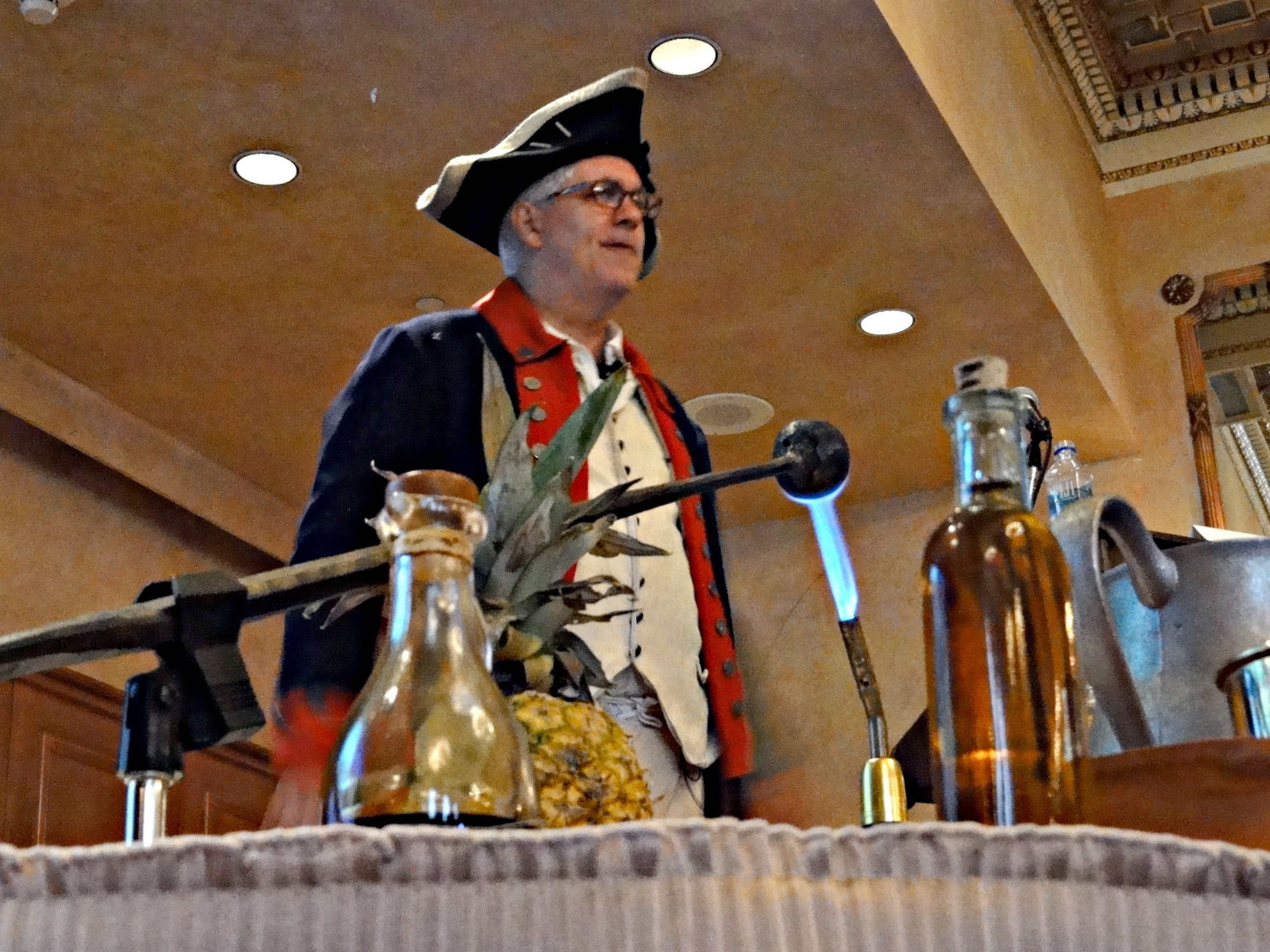 Tales of the Cocktail, New Orleans Wayne Curtis likes to get his loggerhead red-hot before plunging it into a jug of ale. I don't have any pictures of that because I was conscripted into service holding the mic. My favorite seminar, no question. Wayne Curtis ruled this conference.